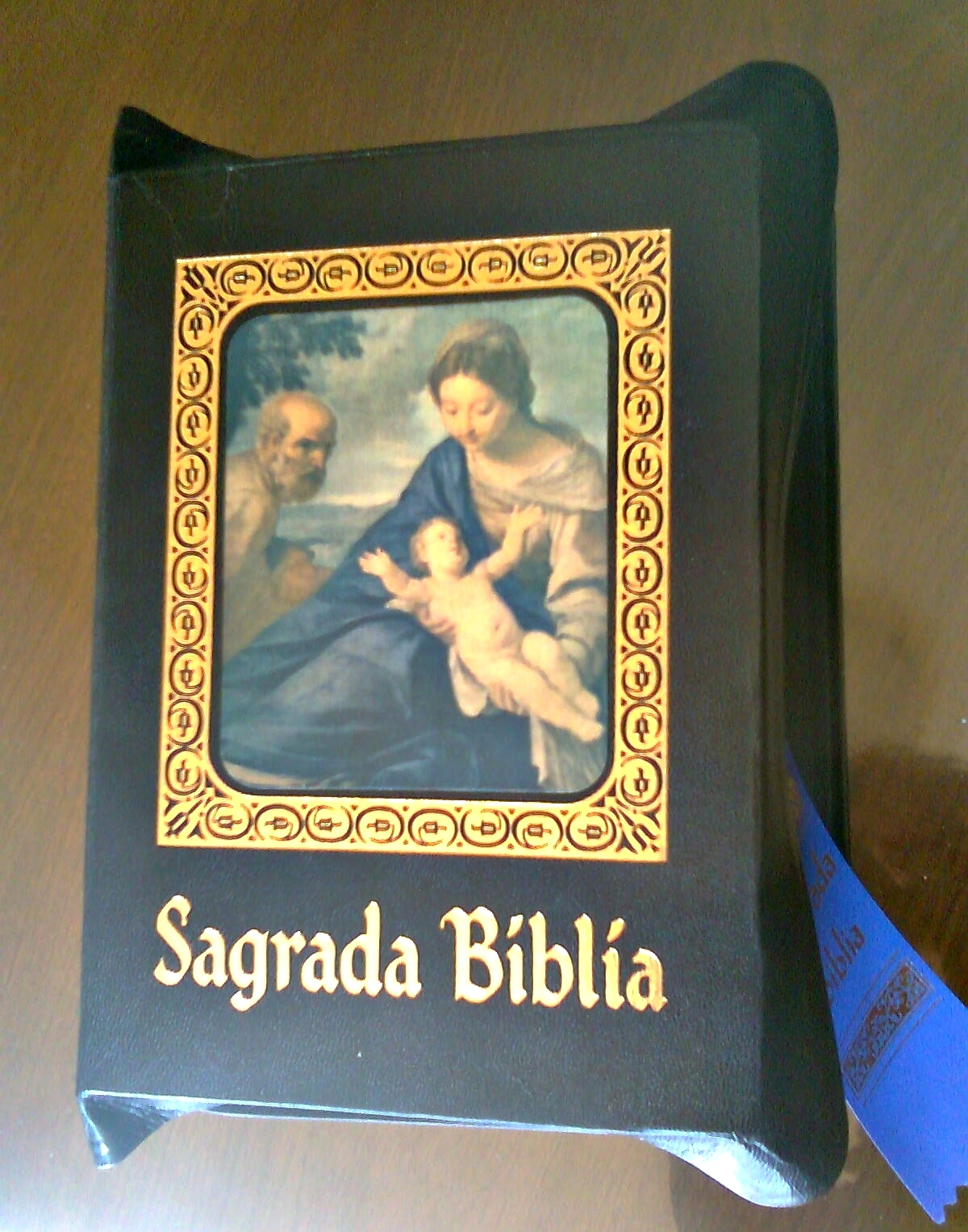 Spanish bible